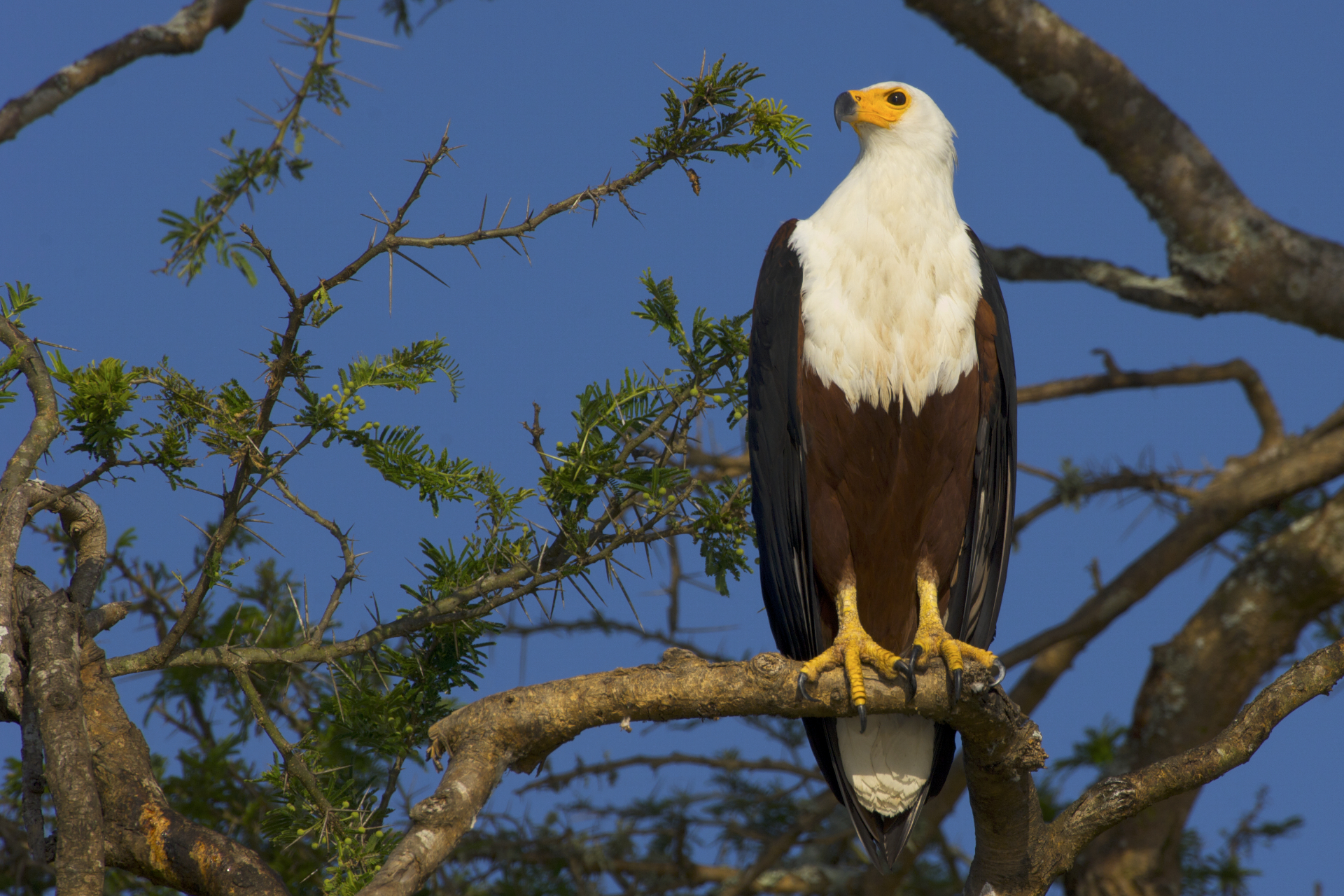 African Fish Eagle perched in Lake Mburo, Uganda